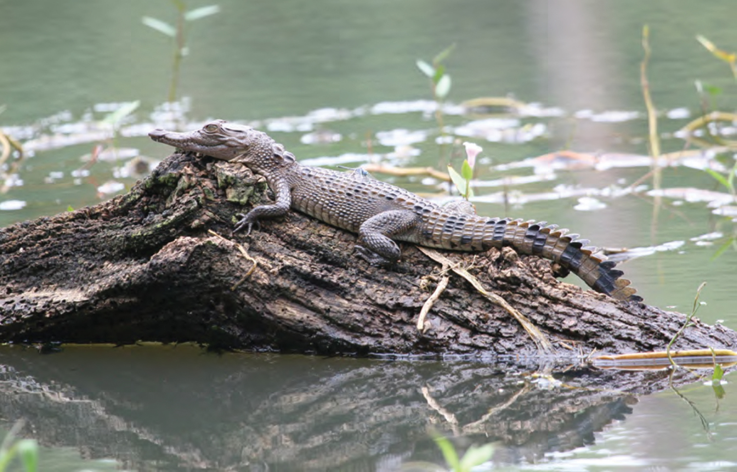 Crocodylus mindorensis basking on a log in the Dunoy Lake, Barangay Dibuluan. Photo MVW.